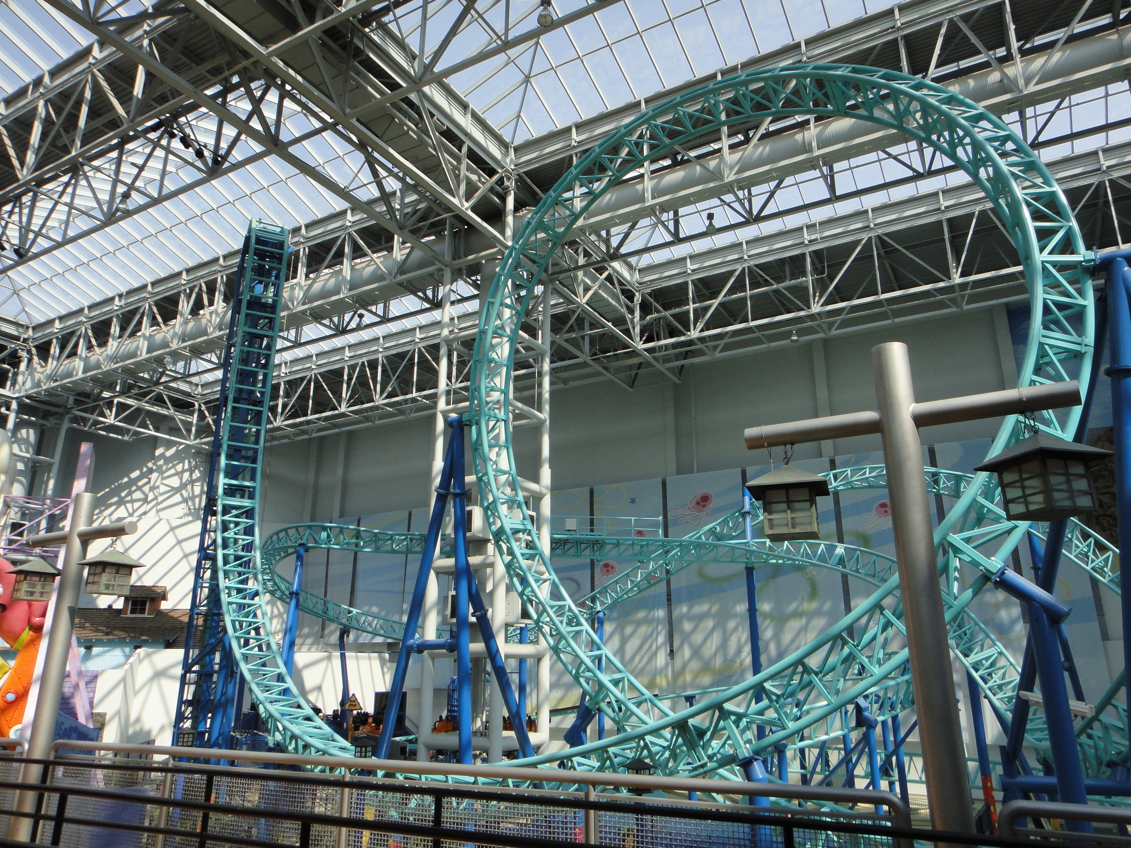 A view of the SpongeBob SquarePants Rock Bottom Plunge in Bloomington, MN.